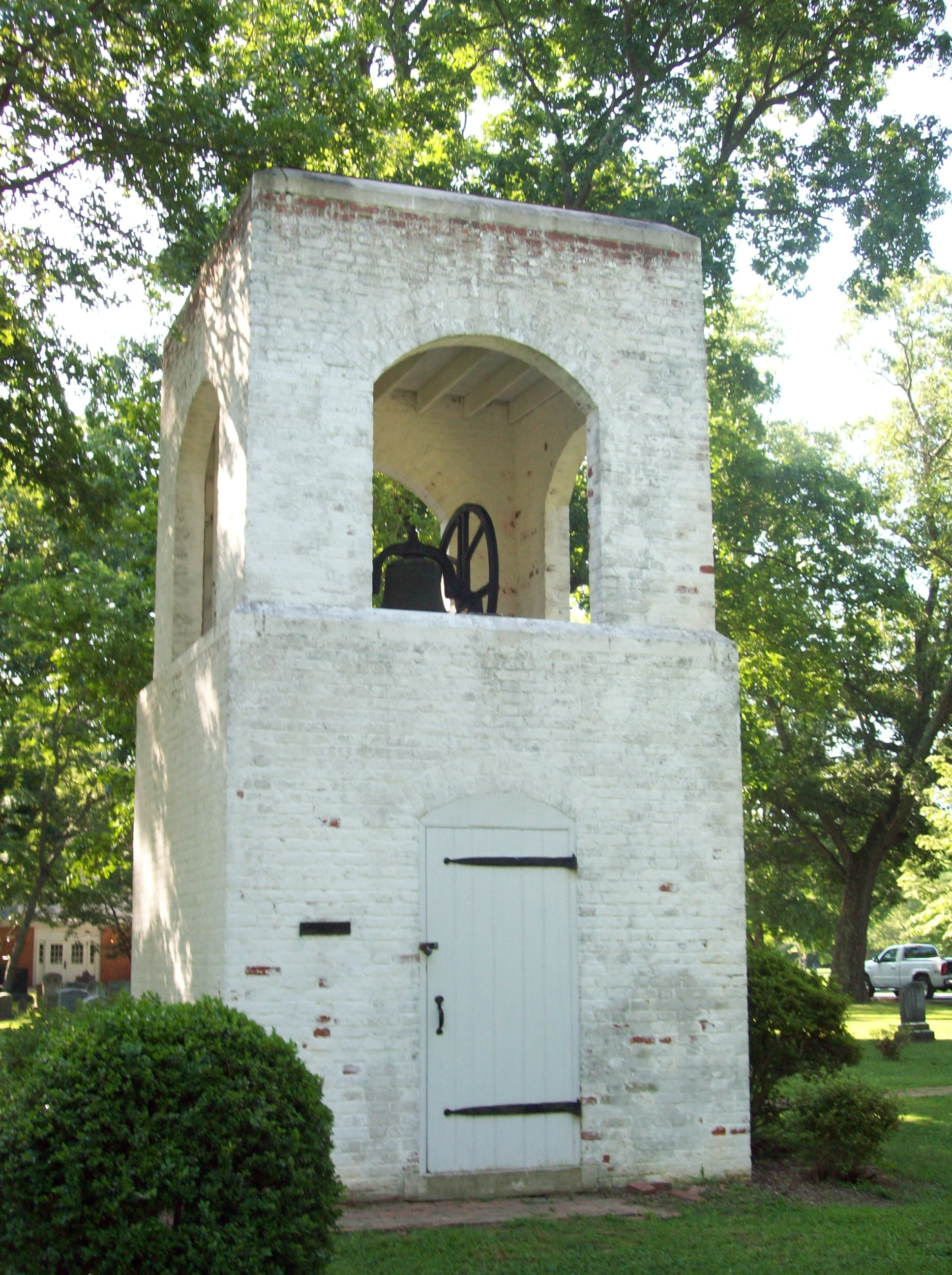 St. George's Protestant Episcopal Church, Belfry, Valley Lee, MD, July 2009